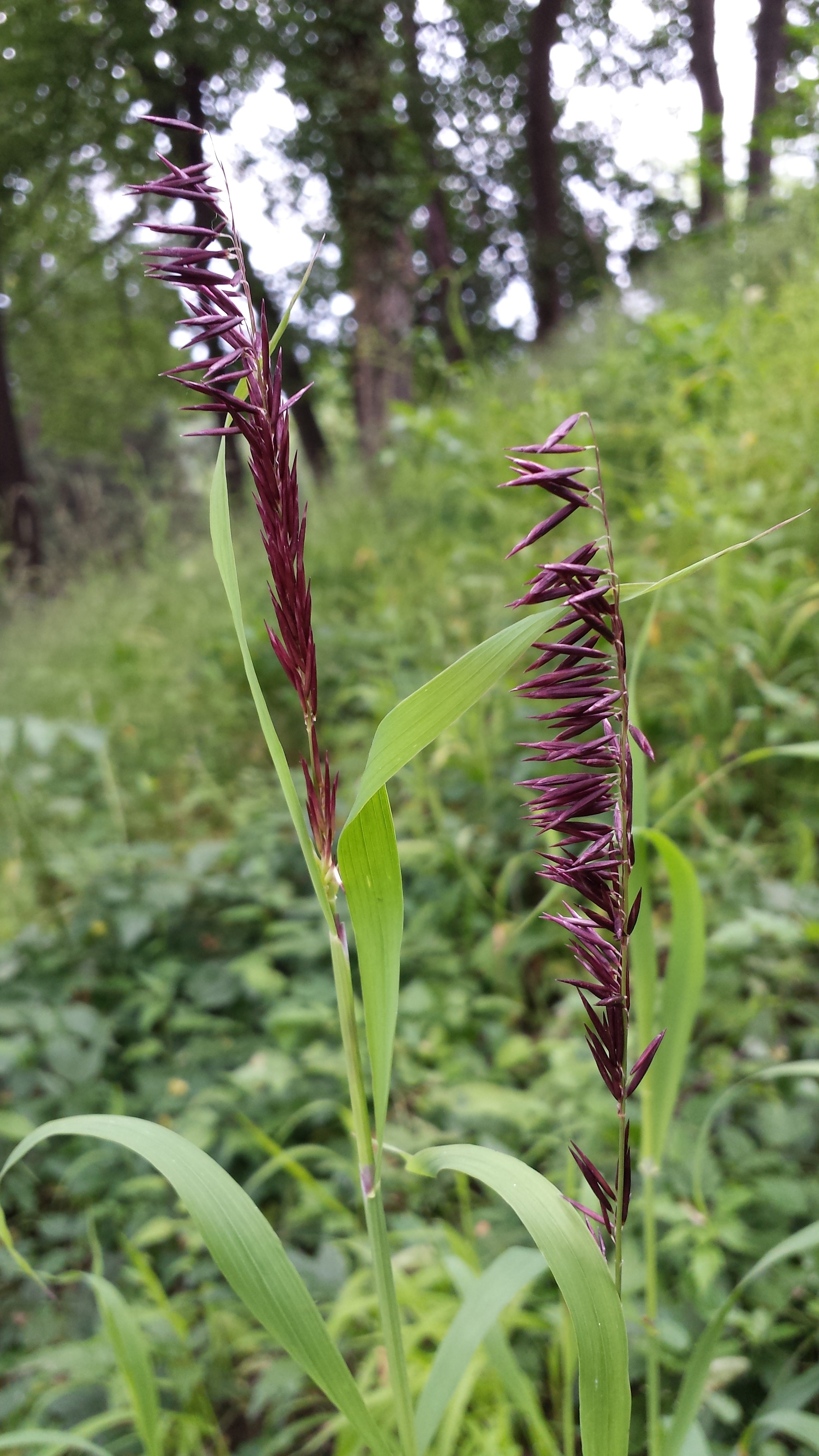 Taxon: Melica altissima var. atropurpurea (sensu Fischer et al. EfÖLS 2008) Location: church hill in Bisamberg, district Korneuburg, Lower Austria - ca. 180 m a.s.l. Habitat: light deciduous forest